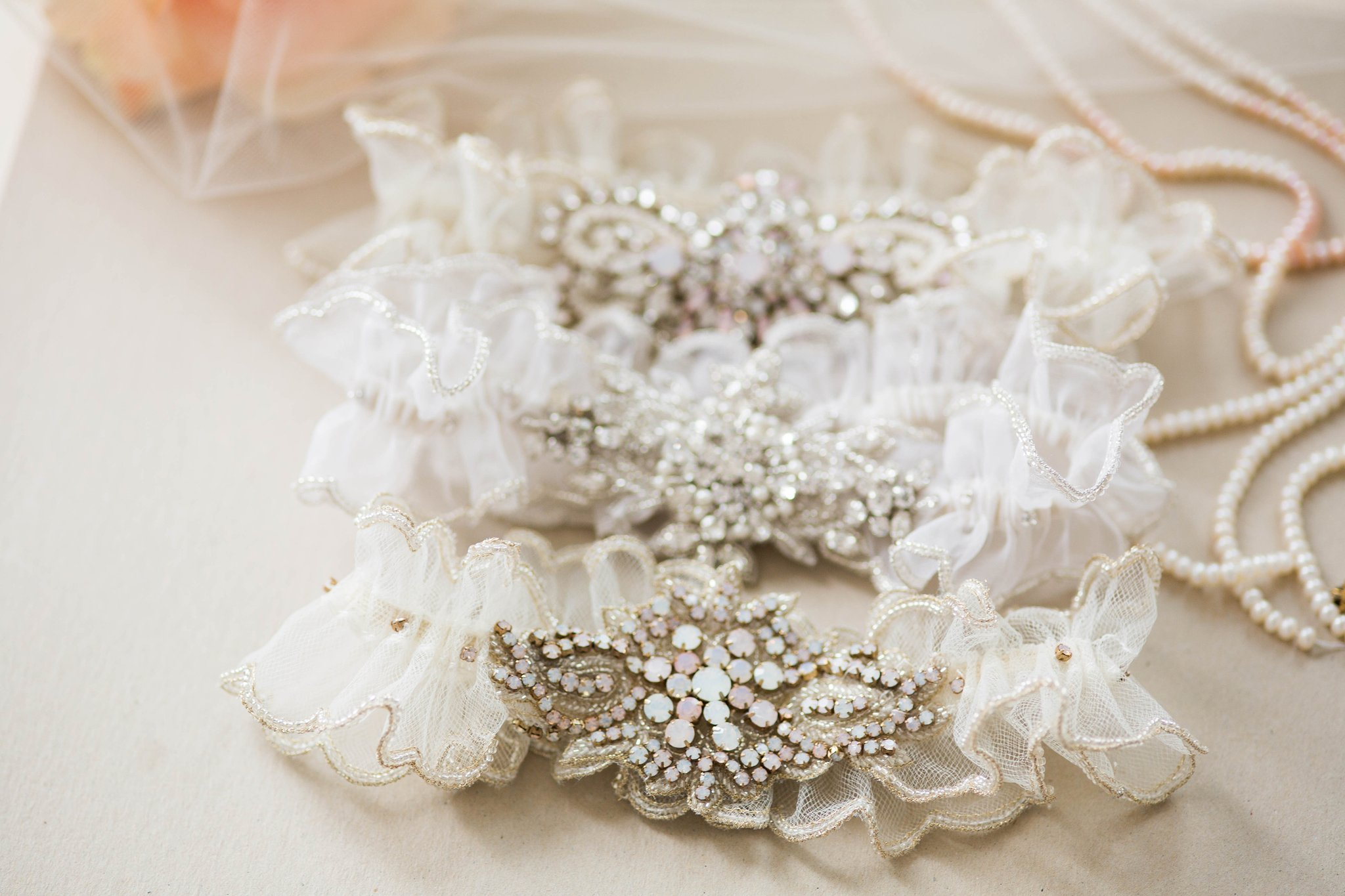 Wedding Garter - For the 21st Century Bride